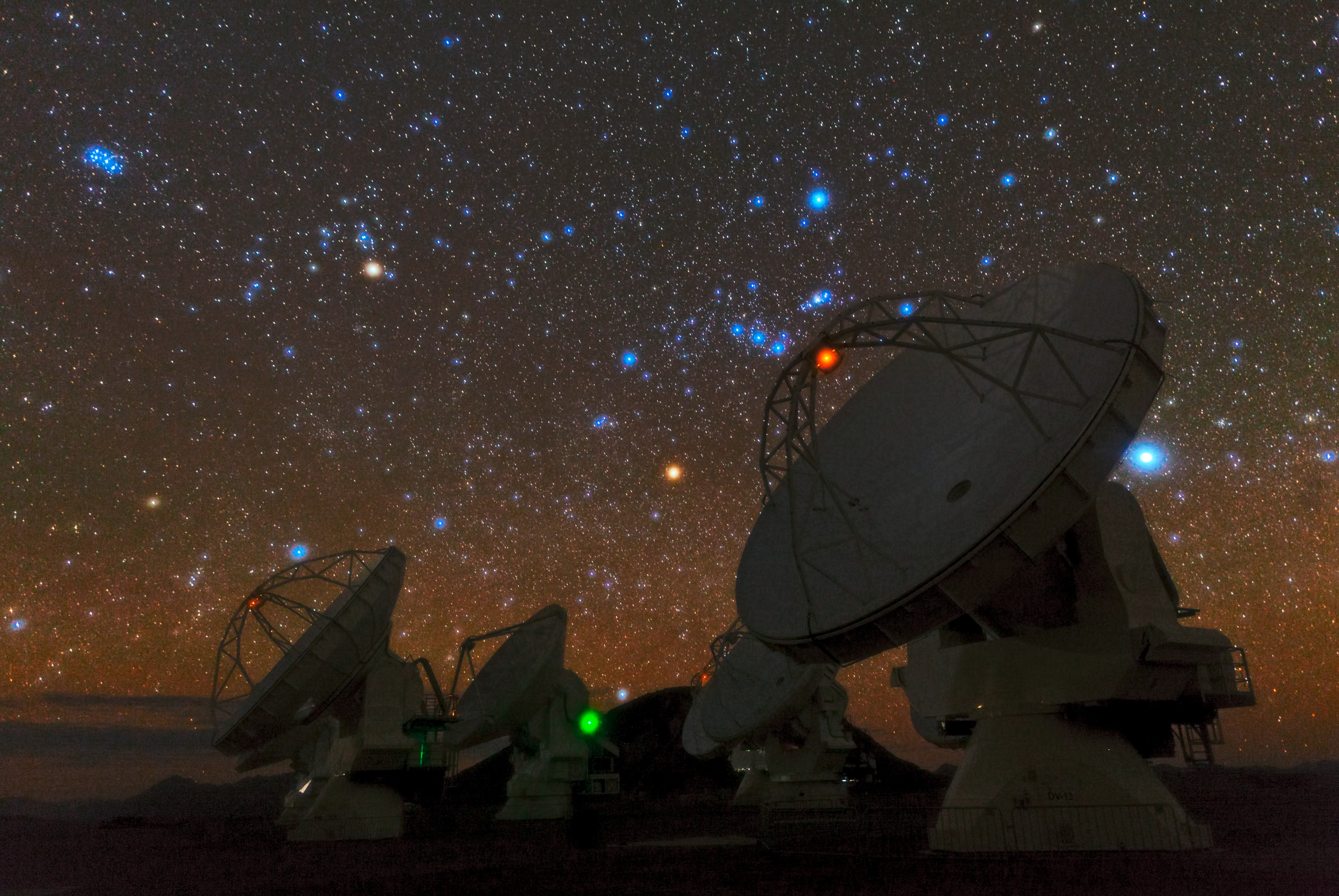 Babak Tafreshi, one of the ESO Photo Ambassadors, has captured the antennas of the Atacama Large Millimeter/submillimeter Array (ALMA) in an enthralling image combining the beauty of the southern sky with the amazing dimensions of the biggest astronomical project in the world. Thousands of stars are revealed to the naked eye in the clear skies over the Chajnantor Plateau. Its dry and transparent night sky is one of the reasons ALMA has been built here. Surprisingly bright in the upper left corner of the picture, there is a tightly packed bunch of young stars, the Pleiades Cluster, which was already known to most ancient civilisations. The constellation of Orion (The Hunter) is clearly visible over the closest of the antennas — the hunter’s belt is formed by the three blue stars just to the left of the red light. According to classic mythology, Orion was a hunter who chased the Pleiades, the beautiful daughters of Atlas. When seen through the thin atmosphere over the Atacama, it almost seems that this epic hunt is really happening. ALMA, an international astronomy facility, is a partnership of Europe, North America and East Asia in cooperation with the Republic of Chile. ALMA construction and operations are led on behalf of Europe by ESO, on behalf of North America by the National Radio Astronomy Observatory (NRAO), and on behalf of East Asia by the National Astronomical Observatory of Japan (NAOJ). The Joint ALMA Observatory (JAO) provides the unified leadership and management of the construction, commissioning and operation of ALMA.